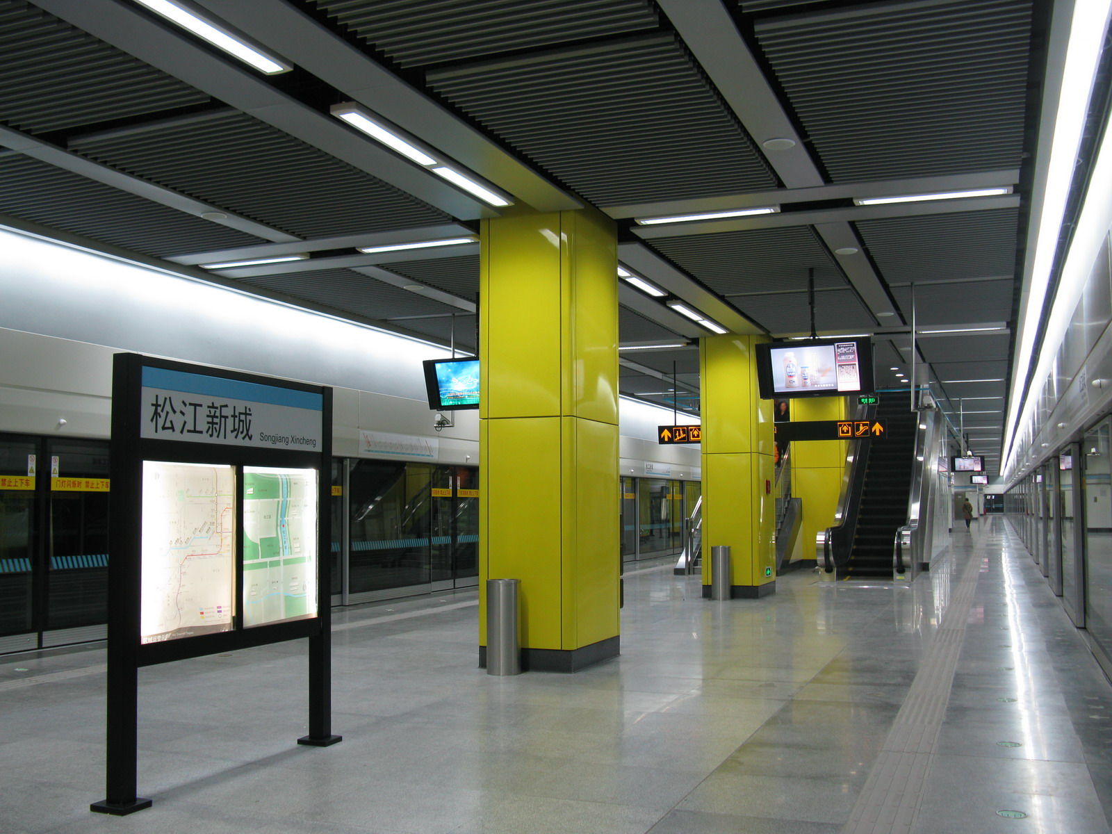 松江新城站-9號線月台 Line 9 Platform of Songjiang Xincheng Station